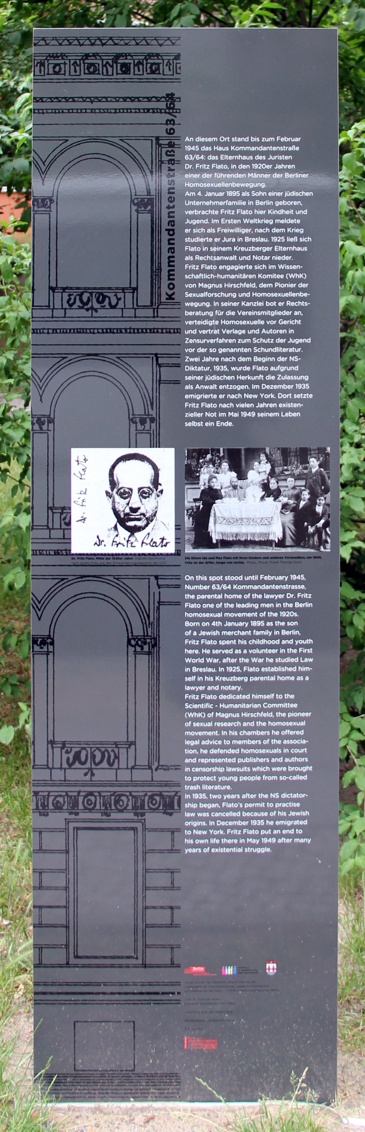 Memorial plaque, Fritz Flato, Kommandantenstraße 63, Berlin-Kreuzberg, Germany